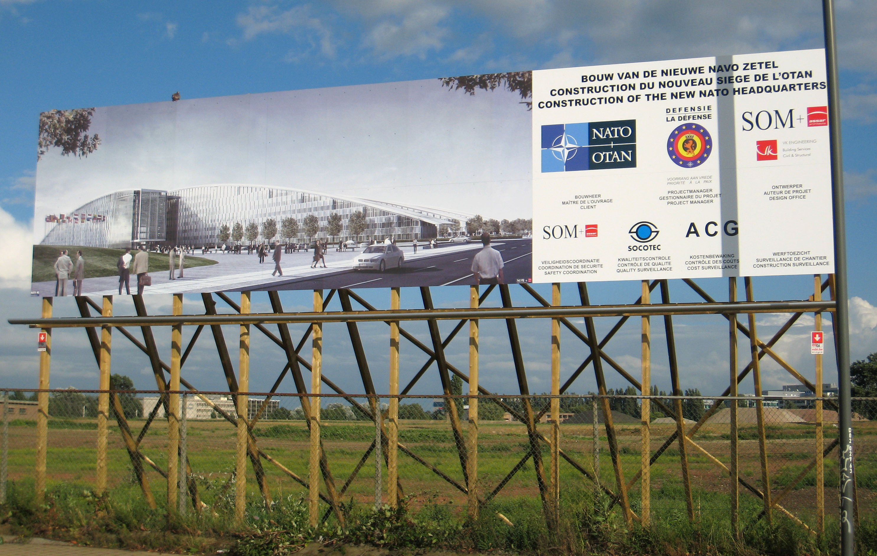 Photograph of a sign showing an artist's impression of the new NATO HQ, in front of the site in Haren, Brussels, where it will be built.